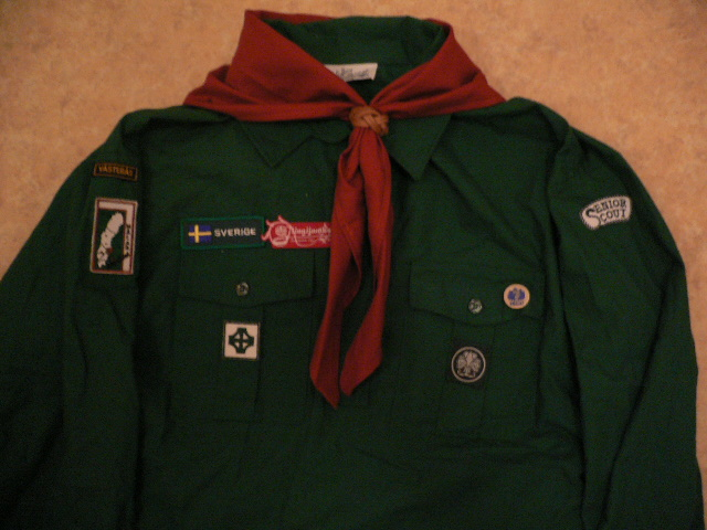 A picture of the former Scout shirt of Svenska Missionskyrkans Ungdom Scout SMU-scout.